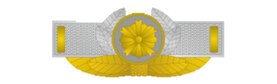 Brooch rank insigna for assistant inspector of japanese police